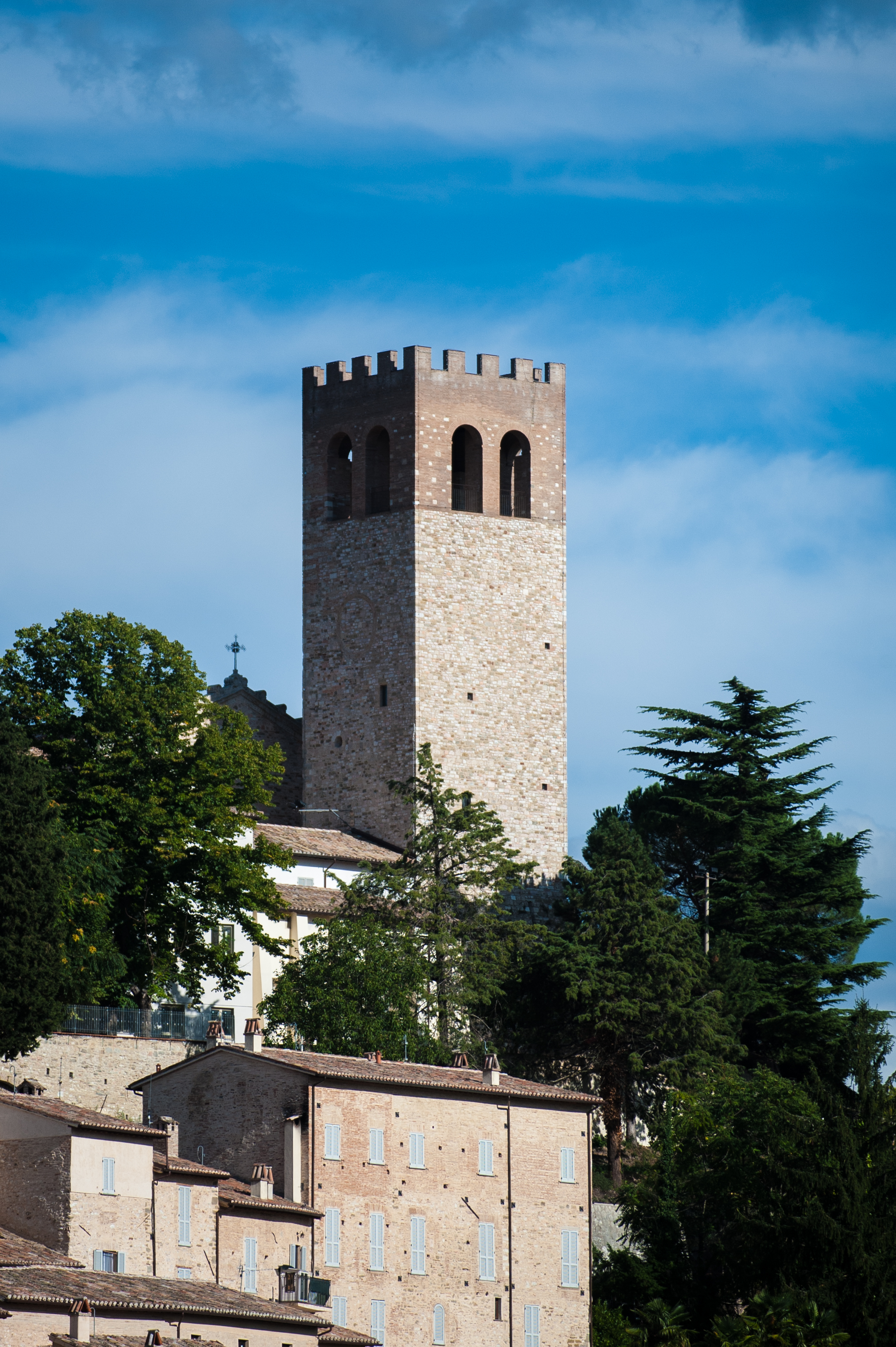 The civic tower of Nocera Umbra (PG), called Campanaccio This is a photo of a monument which is part of cultural heritage of Italy.